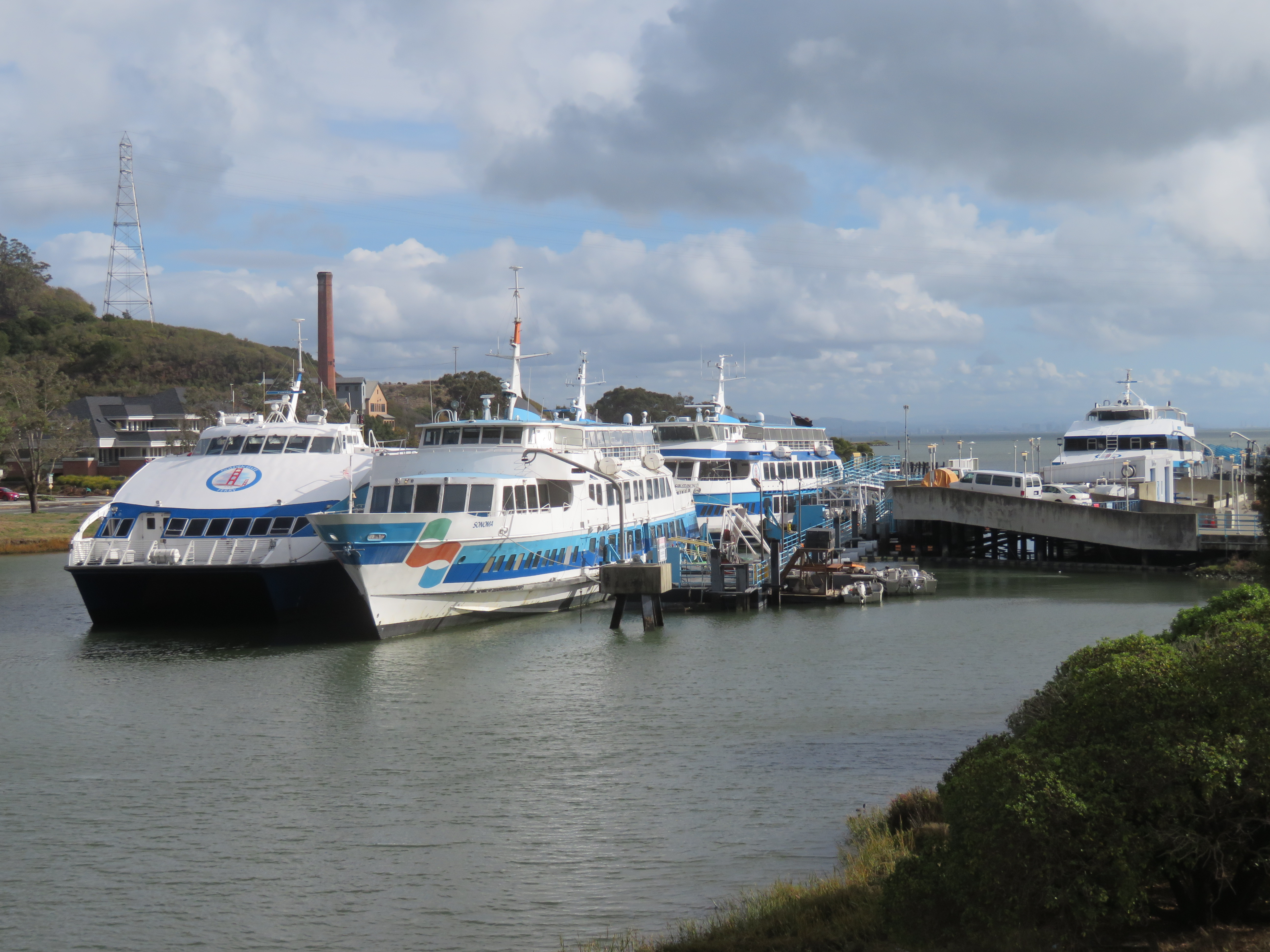 Ferries tied up at Larkspur Landing in November 2018. From left to right: an unidentified catamaran (MV Napa or MV Golden Gate), MV Sonoma, MV San Francisco, MV Mendocino.